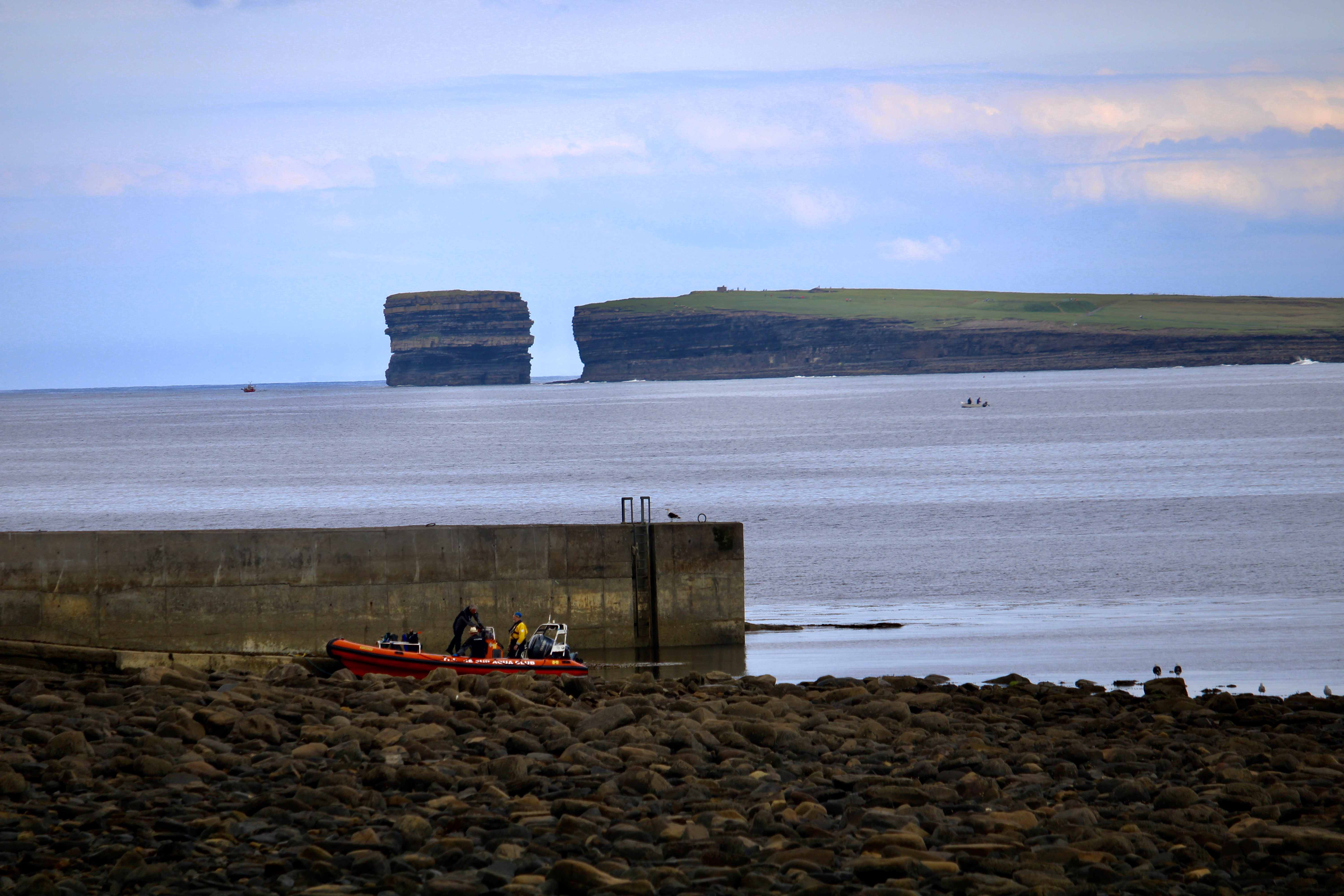 View Bunatrahir Bay with Downpatick Head